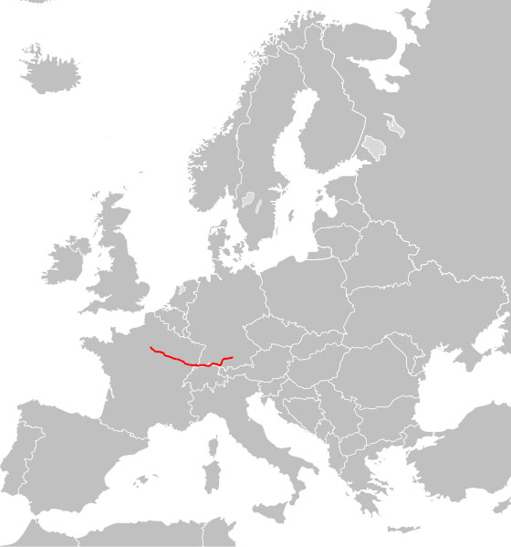 The European route 54